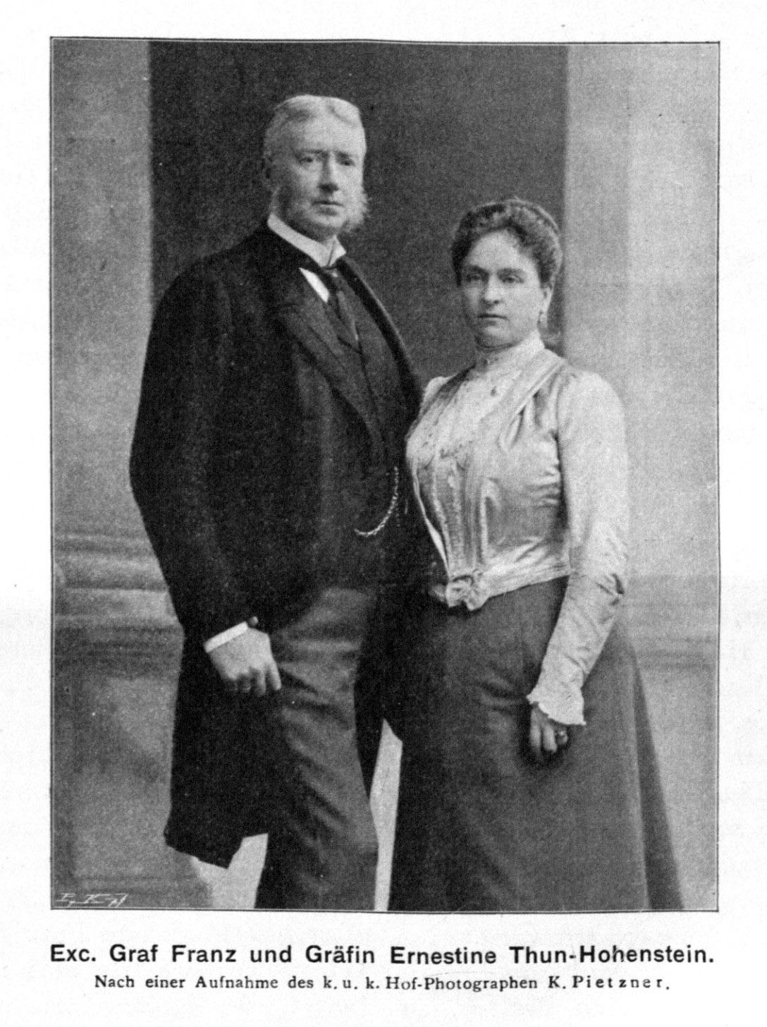 Photograph of Franz von Thun und Hohenstein (1847-1916) with his wife Ernestine Gabriele von Thun und Hohenstein (1858–1948)